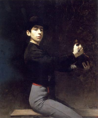 Ramon Casas i Carbó (1866–1932), Self-portrait dressed as a flamenquero, 1883 from [1] This should be the relevant licence for an artist from Spain, where life + 70 is the law under the Berne Convention.